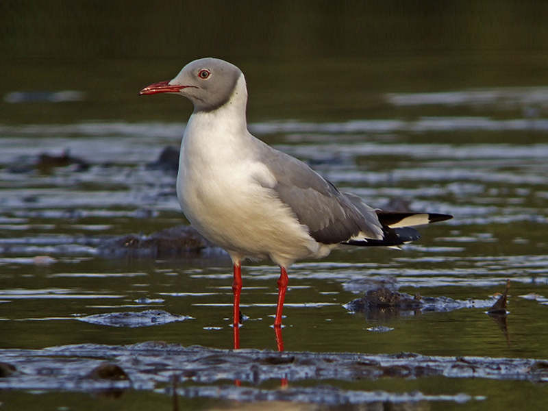 Grey-headed Gull